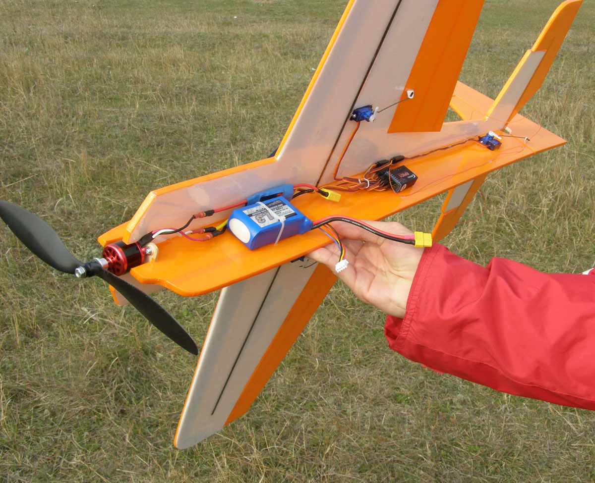 1300mAh 3S 25C Lipo Pack mounted on flying models